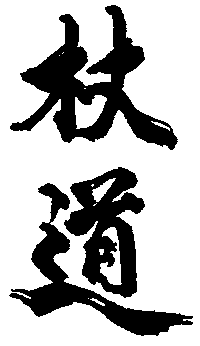 "JODO" (the way of the stick) in Kanji (Japanese character)